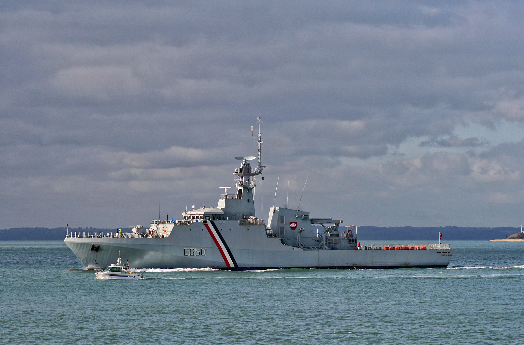 T&T Port of Spain, a corvette built on the River Clyde, Scotland, UK, for the Trinidad & Tobago Defence Force, built primarily to counter the drug smuggling trade in the Caribbean Sea, inward bound on builder's trials to Portsmouth Harbour 11 October 2010 flying the British merchantile Red Ensign and the builder's pennant of BAe Systems. The contract for the supply of three vessels was cancelled, and BAe Systems are converting all three for similar patrol duties with the Brazilian Navy. Image uploaded by me User:George.Hutchinson from a photograph taken by and supplied by Brian Burnell. Wikipedia editors are reminded that the copyright remains with the photographer, and that the terms of the Creative Commons licence; that allow editors to reuse this image apply to Wikipedia editors also, as they do to other re-users of this image. Breaches of the licence terms are not only unlawful, but are also antisocial, in that breaches discourage photographers from making their images freely available to everyone without payment. Wikipedia re-users are also reminded of the license terms that derivatives of this image should not imply that the adaptation is endorsed or approved by the author or copyright holder. Neither should derivatives be presented as the creation of the author or copyright holder, while clearly stating that the adaptation is a derivative of the original. Attribution online should be in this format Brian Burnell. On the printed page, a simpler form is acceptable - example: "Image: Brian Burnell". Non-Wikipedia users are requested to advise Brian Burnell of its use other than on Wikipedia.